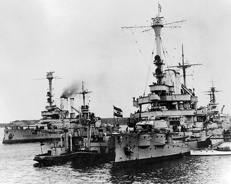 Schleswig-Holstein (German battleship, 1908), in the foreground Photographed circa 1930. Battleship Schlesien is at left, and battleship Hessen is in the right background. U.S. Naval Historical Center Photograph HM 82069